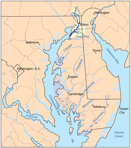 This is a map of the rivers of the Eastern Shore of Maryland with the Elk River and its watershed highlighted. I made it using USGS data.